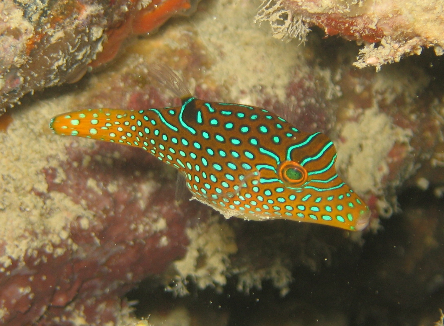 Papuan toby, also known as sharpnose pufferfish, (Canthigaster papua) Image ID: reef0580, NOAA's Coral Kingdom Collection Location: Chuuk, Federated States of Micronesia